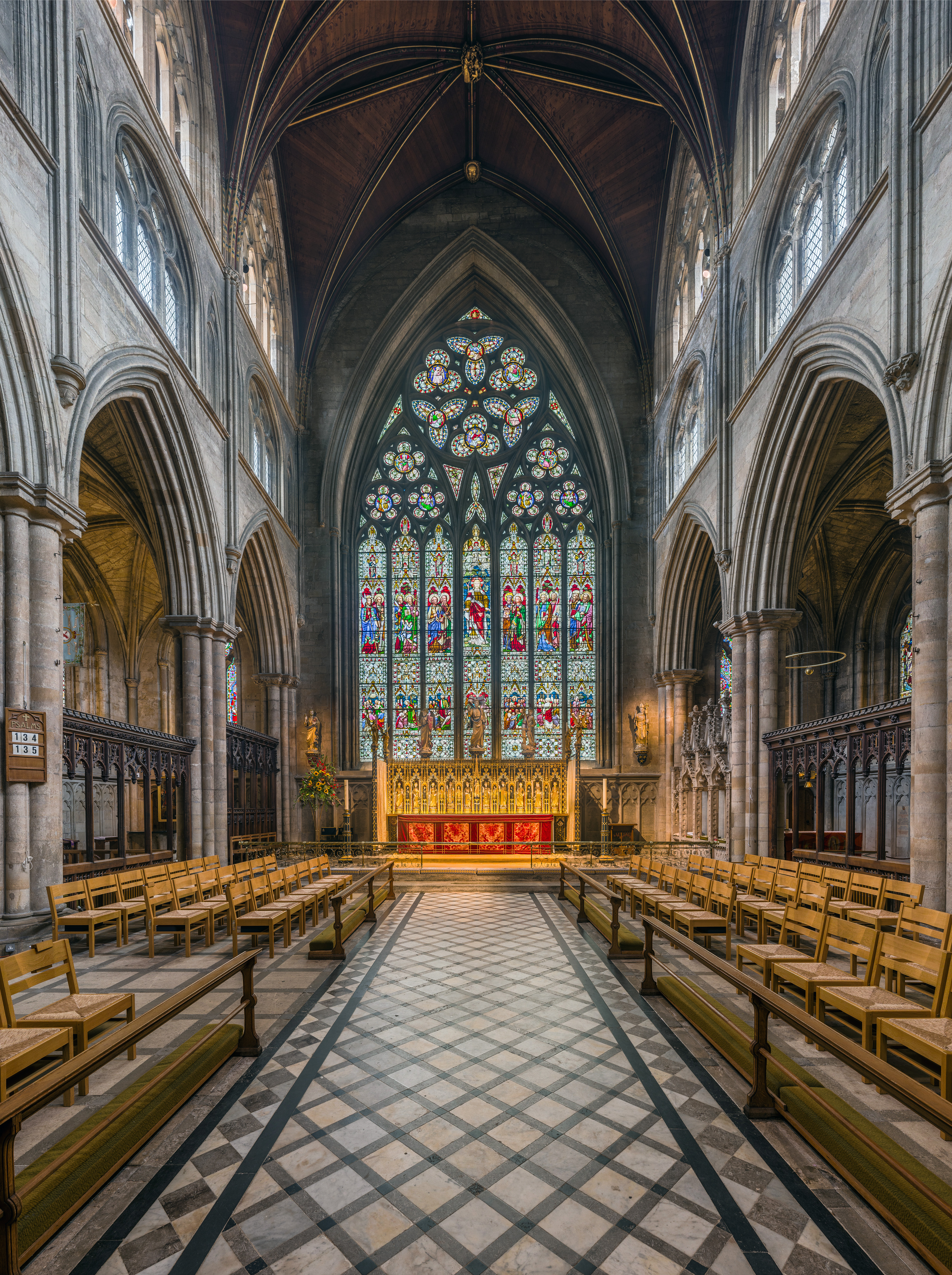 The choir of Ripon Cathedral in Nth Yorkshire, England.